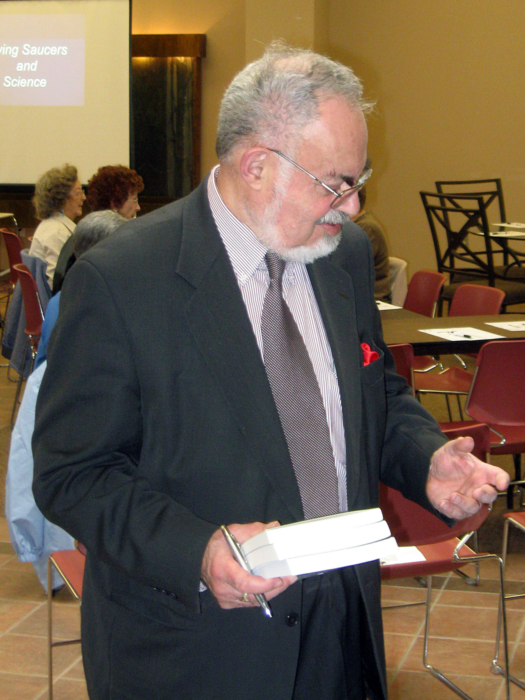 Ufologist and author Stanton T. Friedman in Alamogordo, New Mexico, signing books before giving a talk.